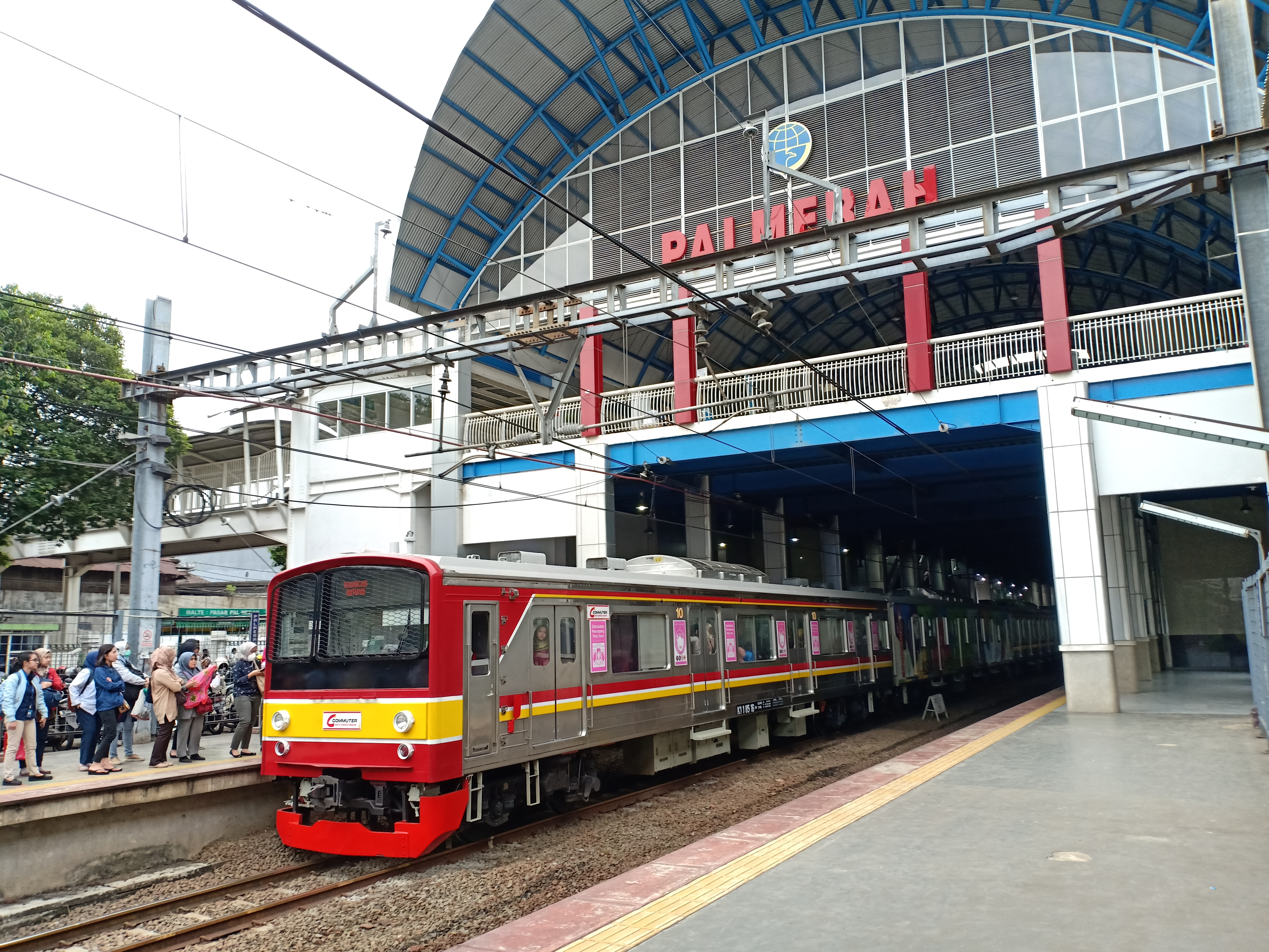 Former JR East Saikyo line 205 series number 205-17F as train number 2012-D1/10608 bound for Rangkasbitung. Taken at Palmerah station